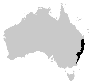 Range of the Bleating Tree Frog, (Litoria dentata).